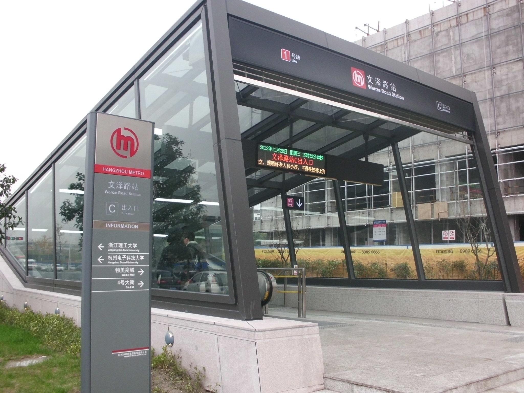 Wenze Road Station